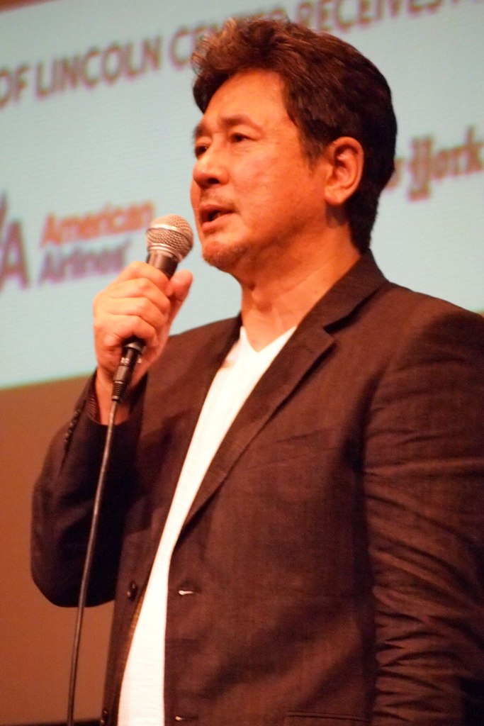 New York Asian Film Festival - 6/30/12 - 27